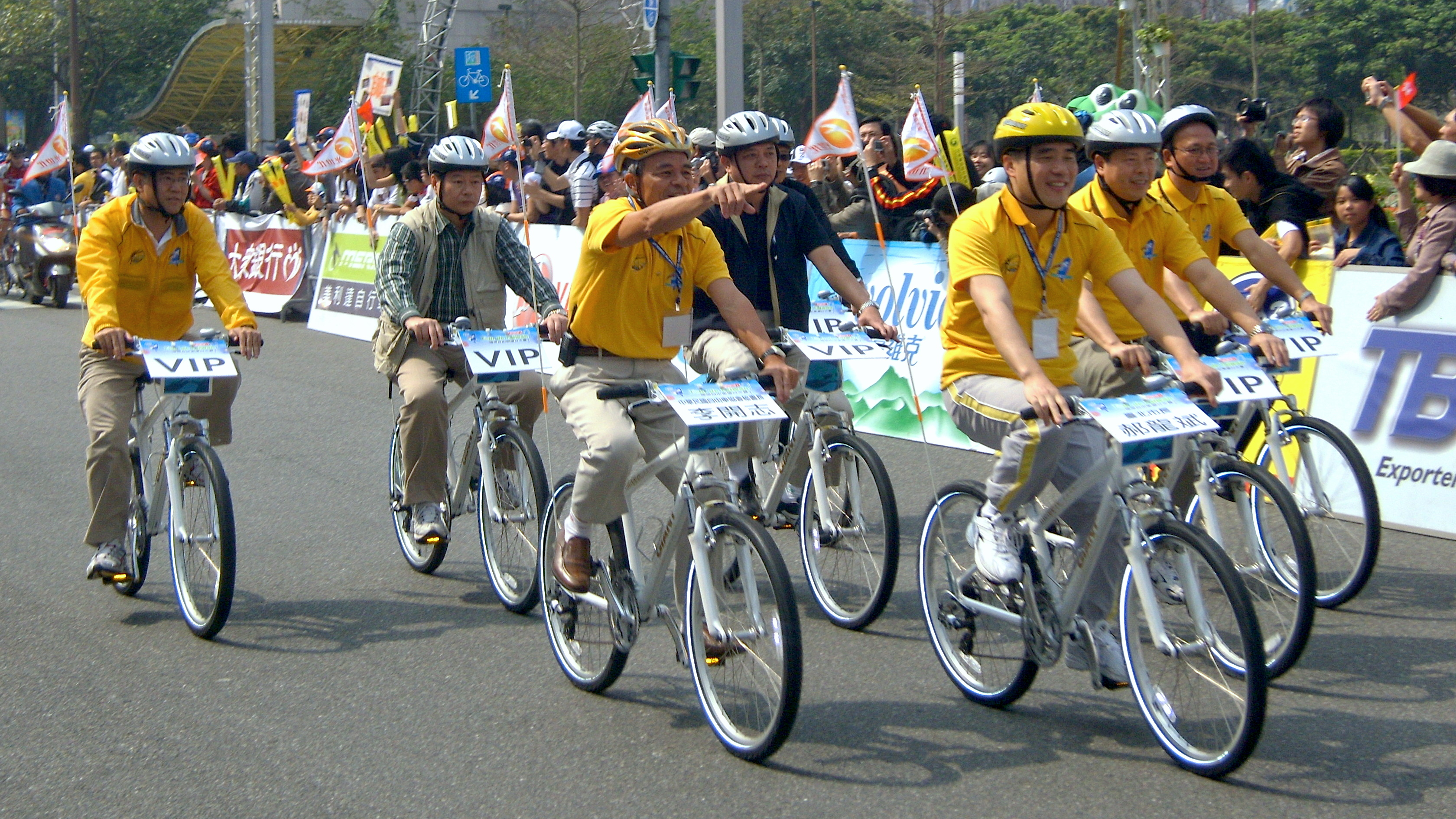 2008 Tour de Taiwan Stage 8: Lead-riding.